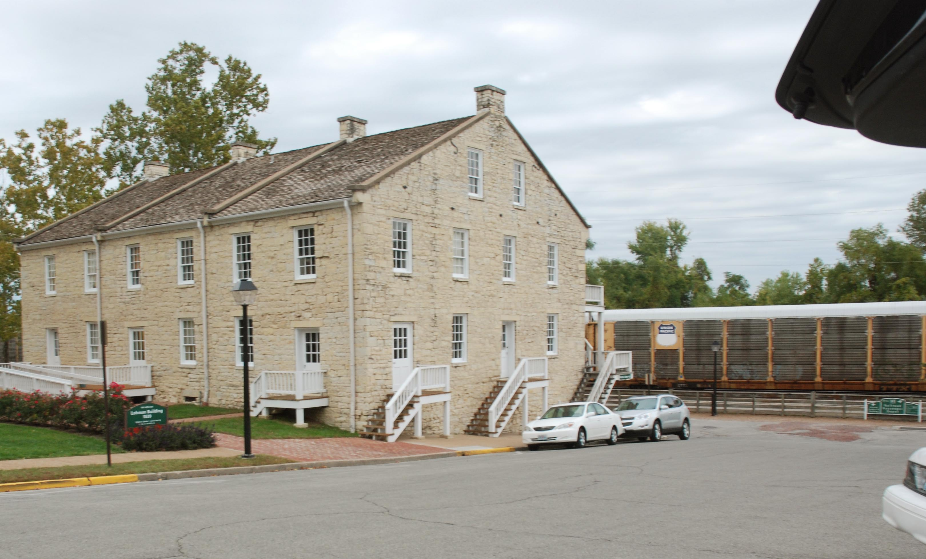 The Lohman Building is part of the Jefferson Landing State Historic Site.